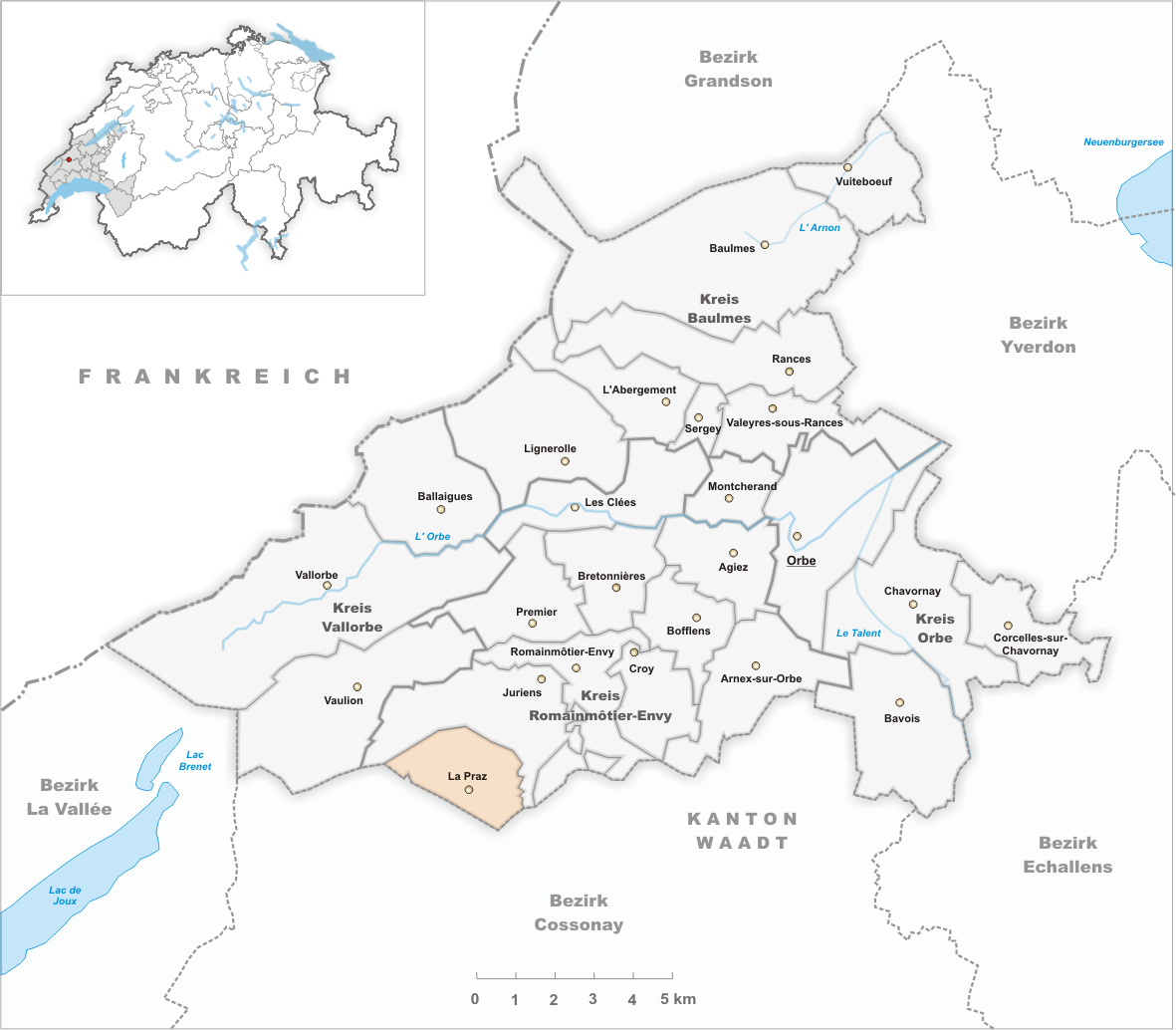 Municipality La Praz